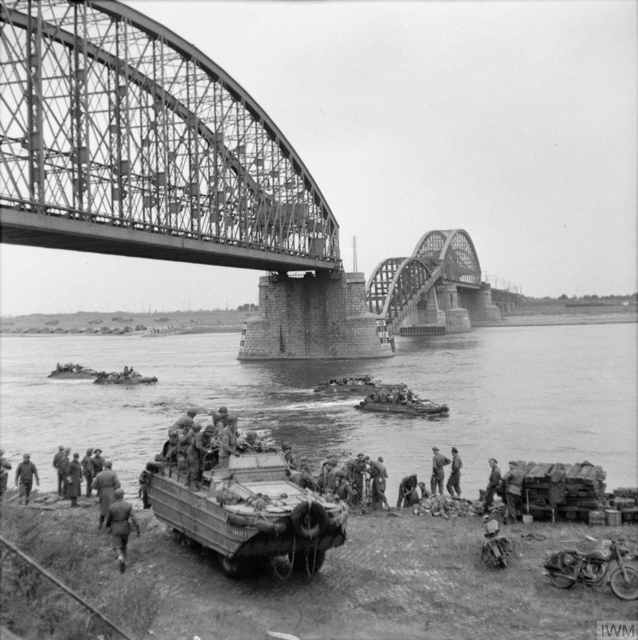 The British Army in North-west Europe 1944-45 DUKWs transport supplies across the River Waal at Nijmegen, below the railway bridge whose central span was broken by German frogmen using floating mines, 30 September 1944.